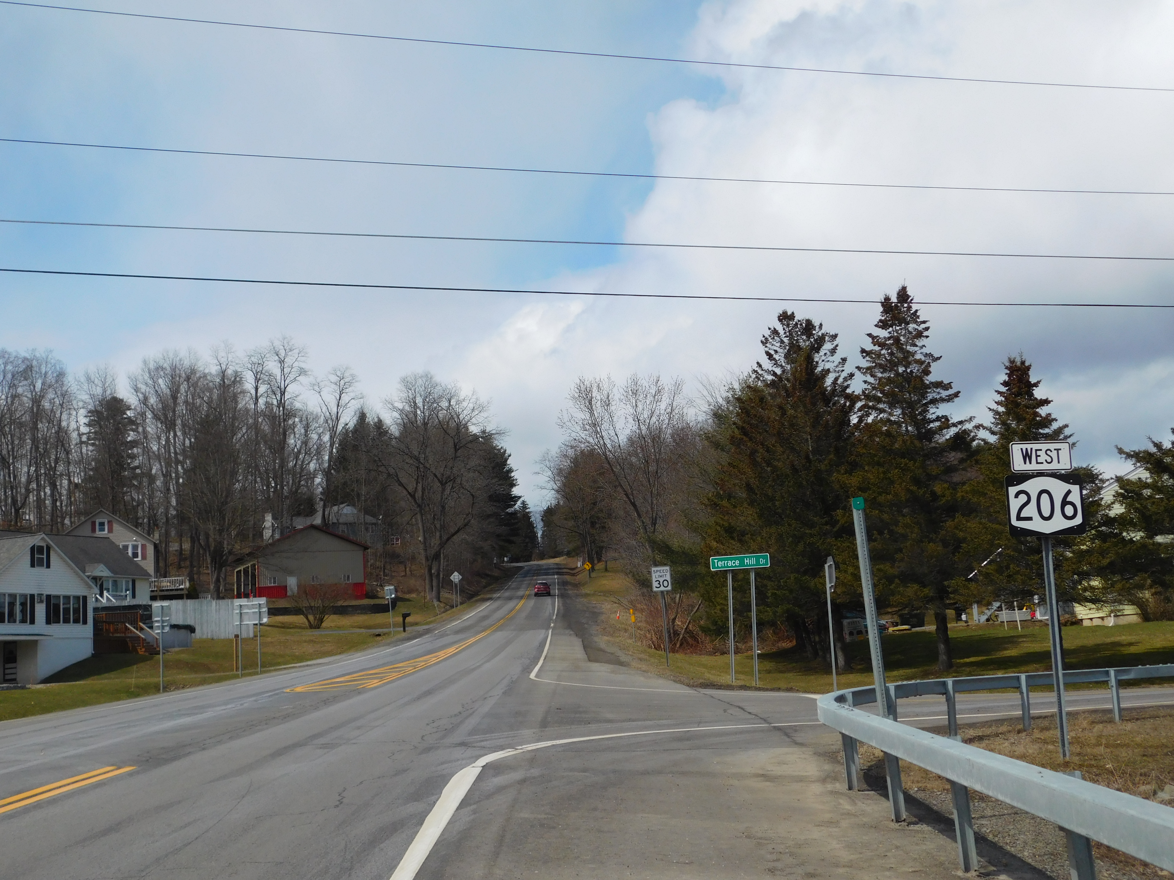 NY 206 in Greene, New York.